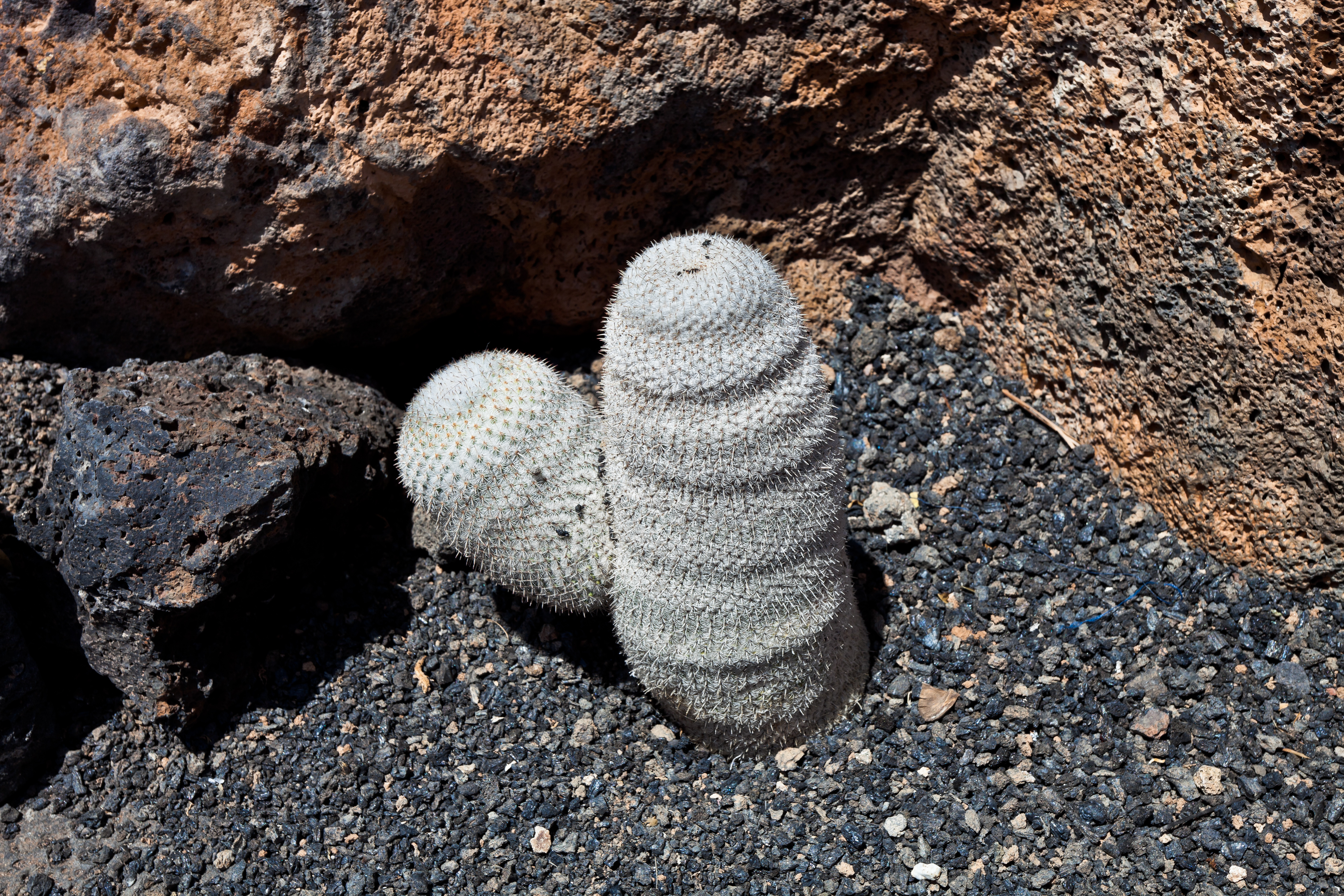 Mammillaria haageana, Jardin de Cactus, Guatiza, Lanzarote, Spain Determinada en por Pedro Sainz y Juan Bibiloni